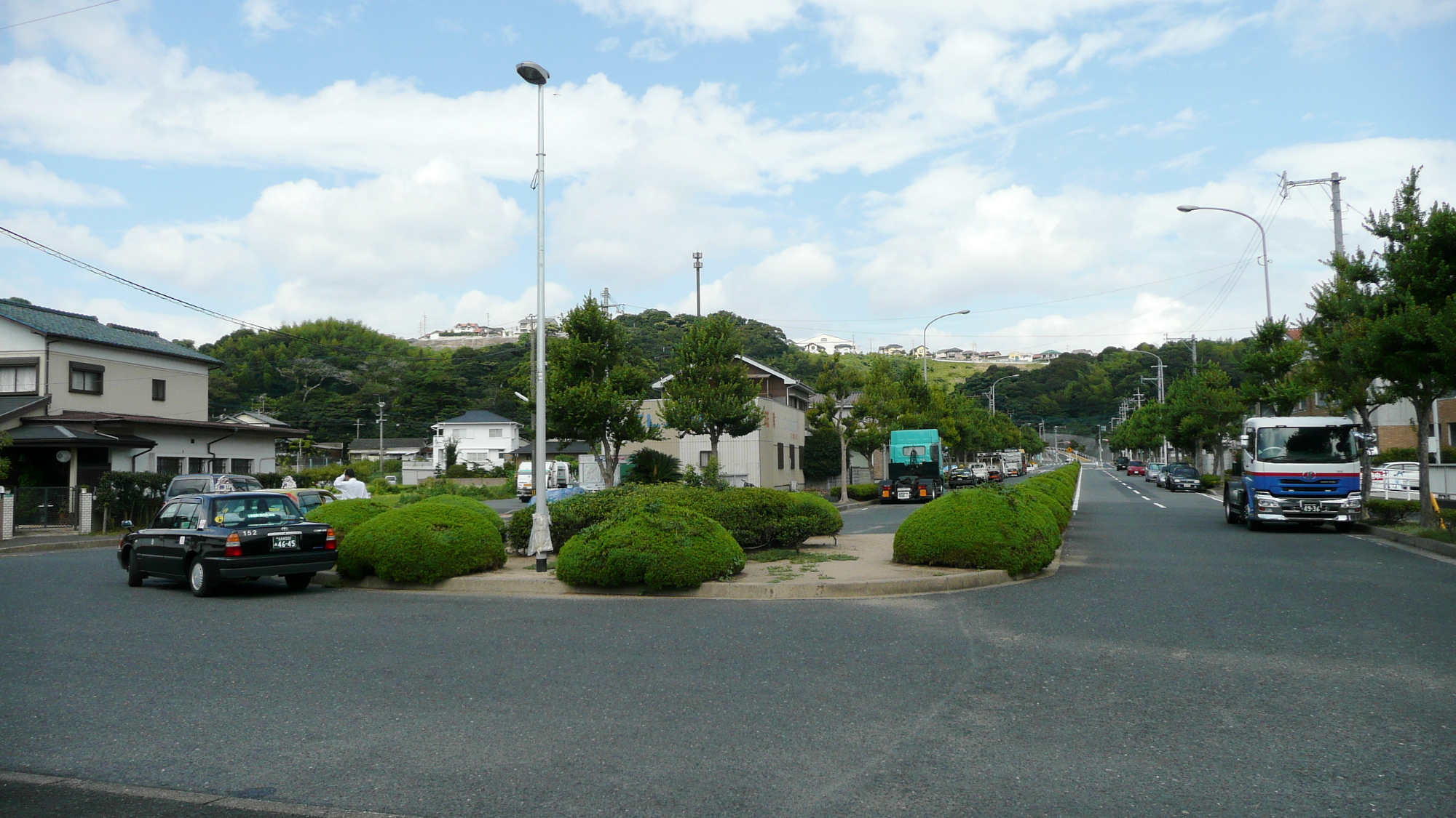 The forecourt of Ishida Station on the Hitahikosan Line in Fukuoka Prefecture, Japan